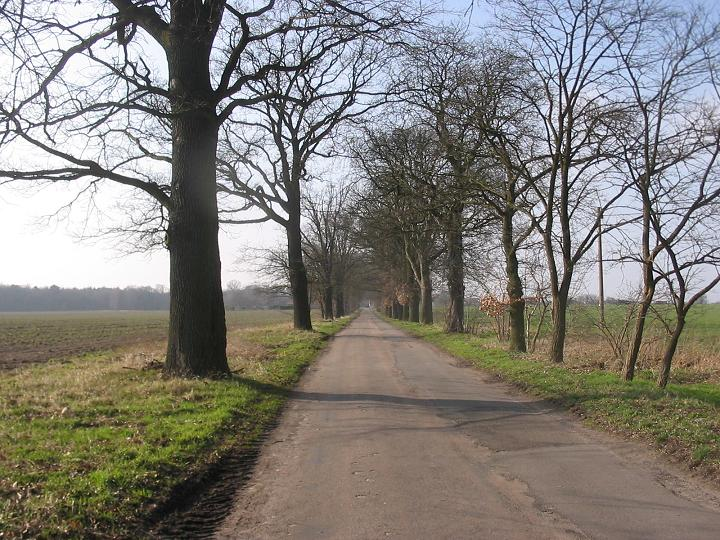 Avenue (landscape) in Löwenbruch. The village Löwenbruch is a part of the town Ludwigsfelde in the district Teltow-Fläming, state Brandenburg, Germany.